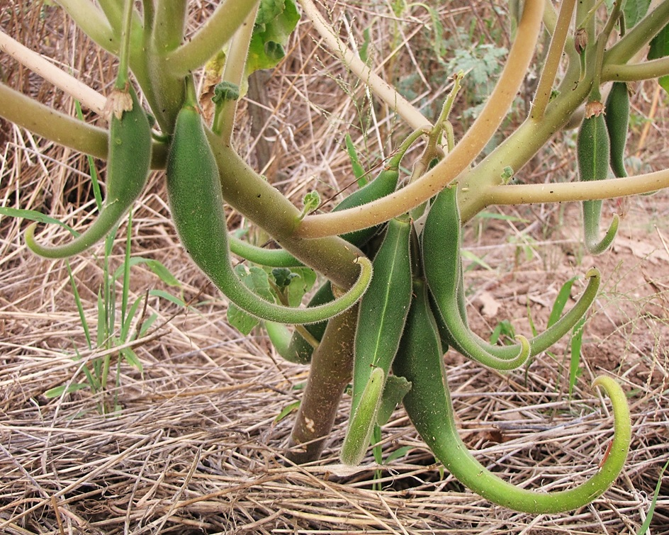 Proboscidea parviflora - A very important traditional indigenous edible and useful plant of the southwest United States. When green the distinctive curve of this fruit earned the name 'unicorn' plant, but when dry the fruits split along the spine to form two large hooks, known as the 'double claw' or 'devil's claws' that easily catch on anything brushing past to disperse the seeds. (Not to be confused with the African 'devil's claw' of a completely different species and different use.) Proboscidea parviflora, 'double claw' fruits when picked young and tender green can be cooked like okra or pickled. Older, larger fruits are allowed to dry. The dried seeds are edible and highly nutritious, and can be eaten dry, crushed for oil or ground into flour. The long, dried curved seed pods are collected for basket-making. These pods are made of an unusually tough fiber and are split along the longest lengths to form dark, rugged cords that are highly valued for traditional Native culture basketry. Proboscidea parviflora is one of several very similar varieties, distinguished by its purple/pink flowers with a yellow nectar guide stripe. The plant's leaves and fruits are hairy and sticky, but easily washed. Each pod contains about 30 seeds.